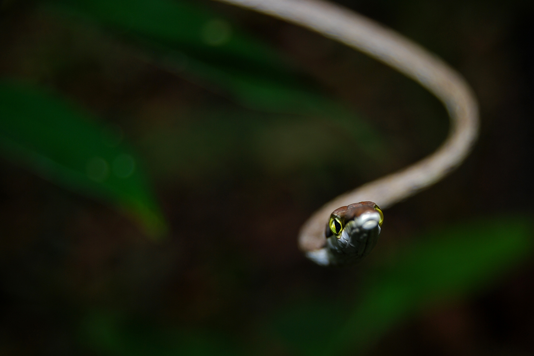 Vine snake (Oxybelis aeneus), Maya Biosphere Reserve, El Petén, Guatemala.